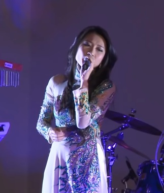 Hoang Thuc Linh in a livestream video at Quang Minh Buddhist Temple 2011